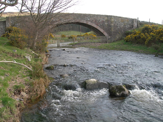 Bridge (B6401) over Kale Water